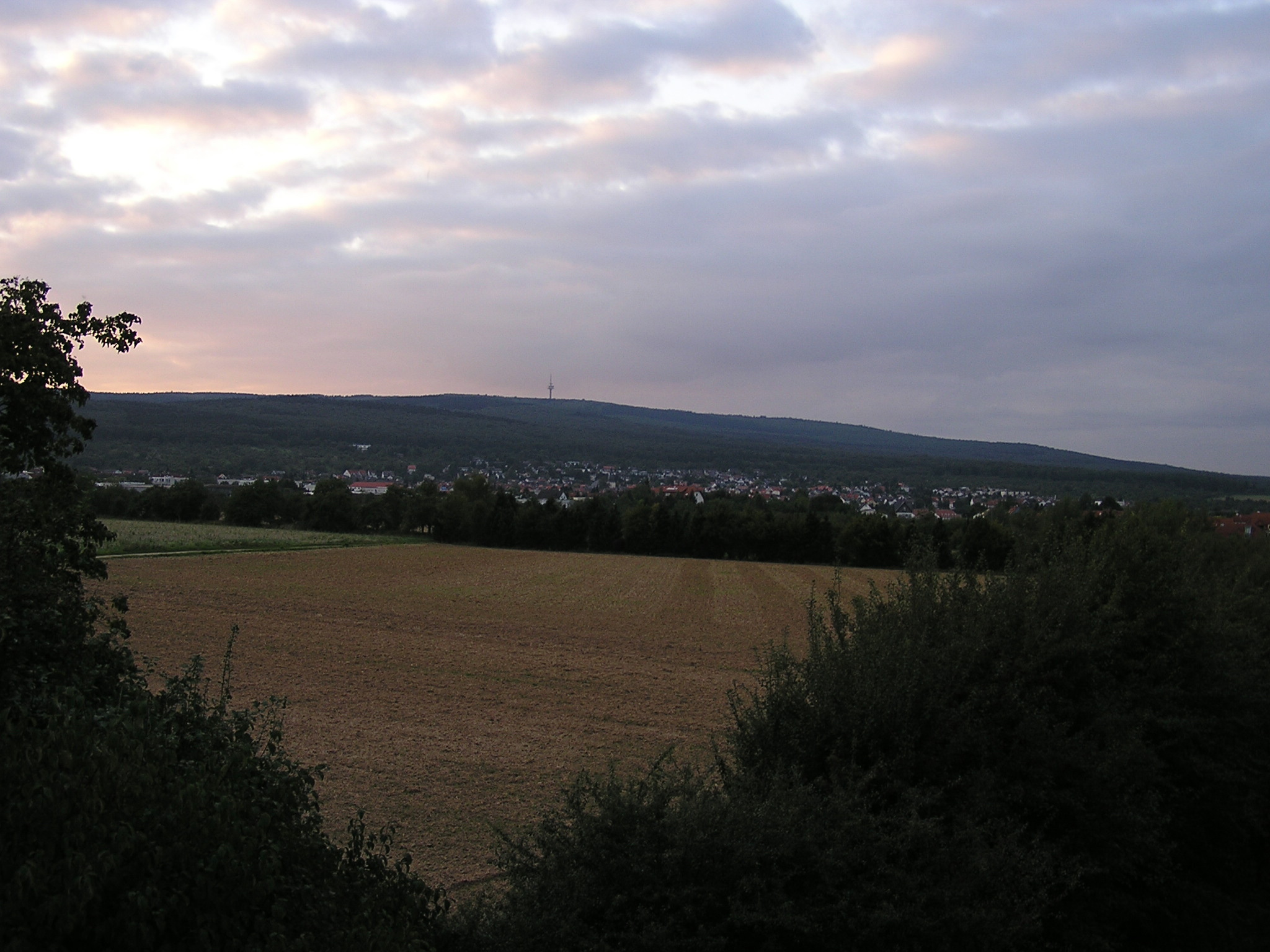 Rosbach vor der Höhe, the Winterstein in the background